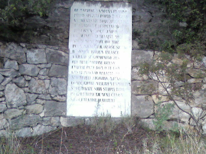 Poem on Marjan hill, Split, Croatia